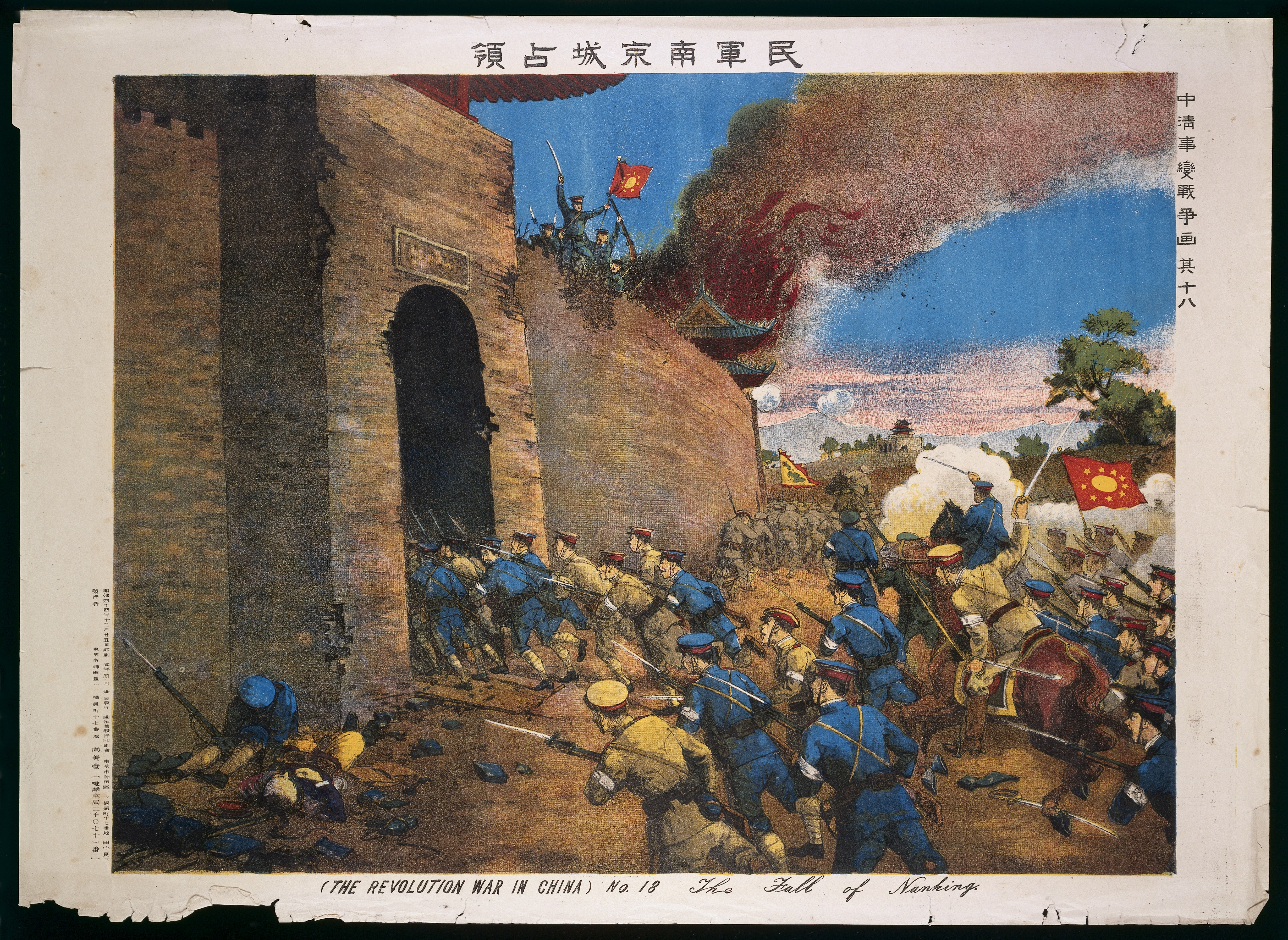 An episode in the revolutionary war in China, 1911: the revolutionary army entering Nanking. Iconographic Collections Keywords: Revolution; Chinese Revolution; Military History; Fighting; China; Battles; T. Miyano; Xinhai Revolution; Manchu (Qing) Dynasty